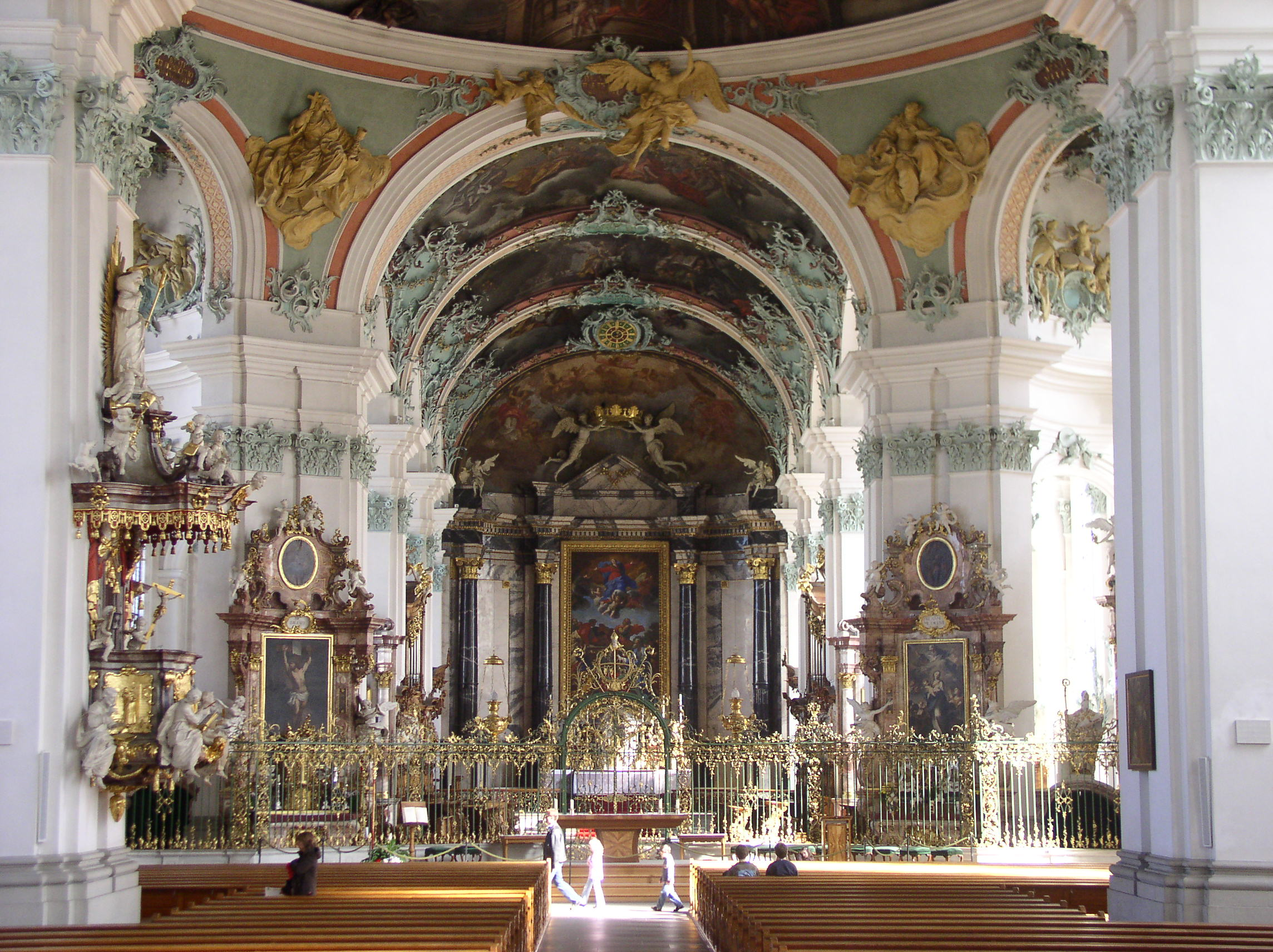 The interior of the cathedral of Sankt Gallen (Switzerland), former church of the Abbey of St. Gall